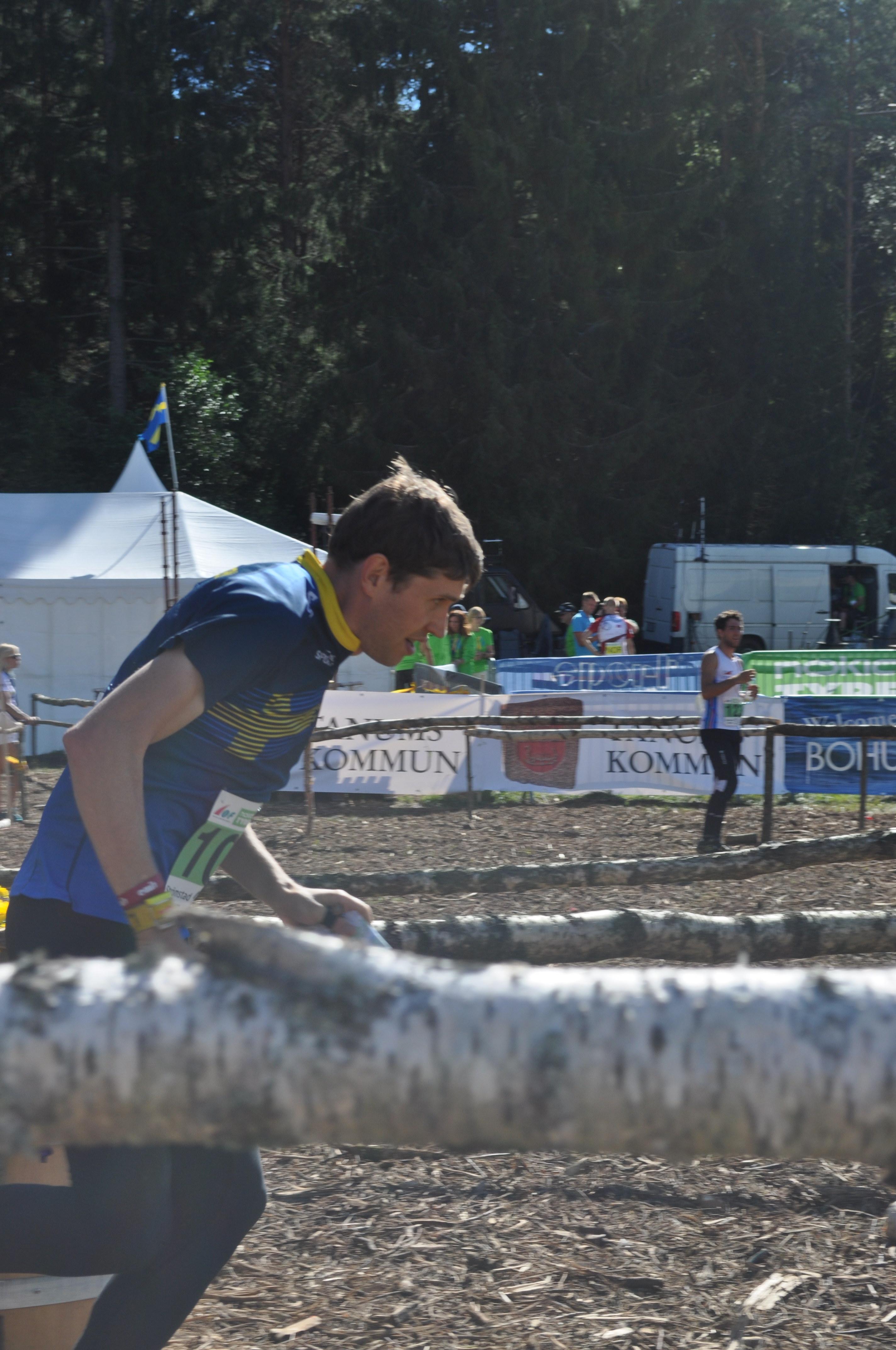 William Lind(Sweden) leaving the map exchange area.